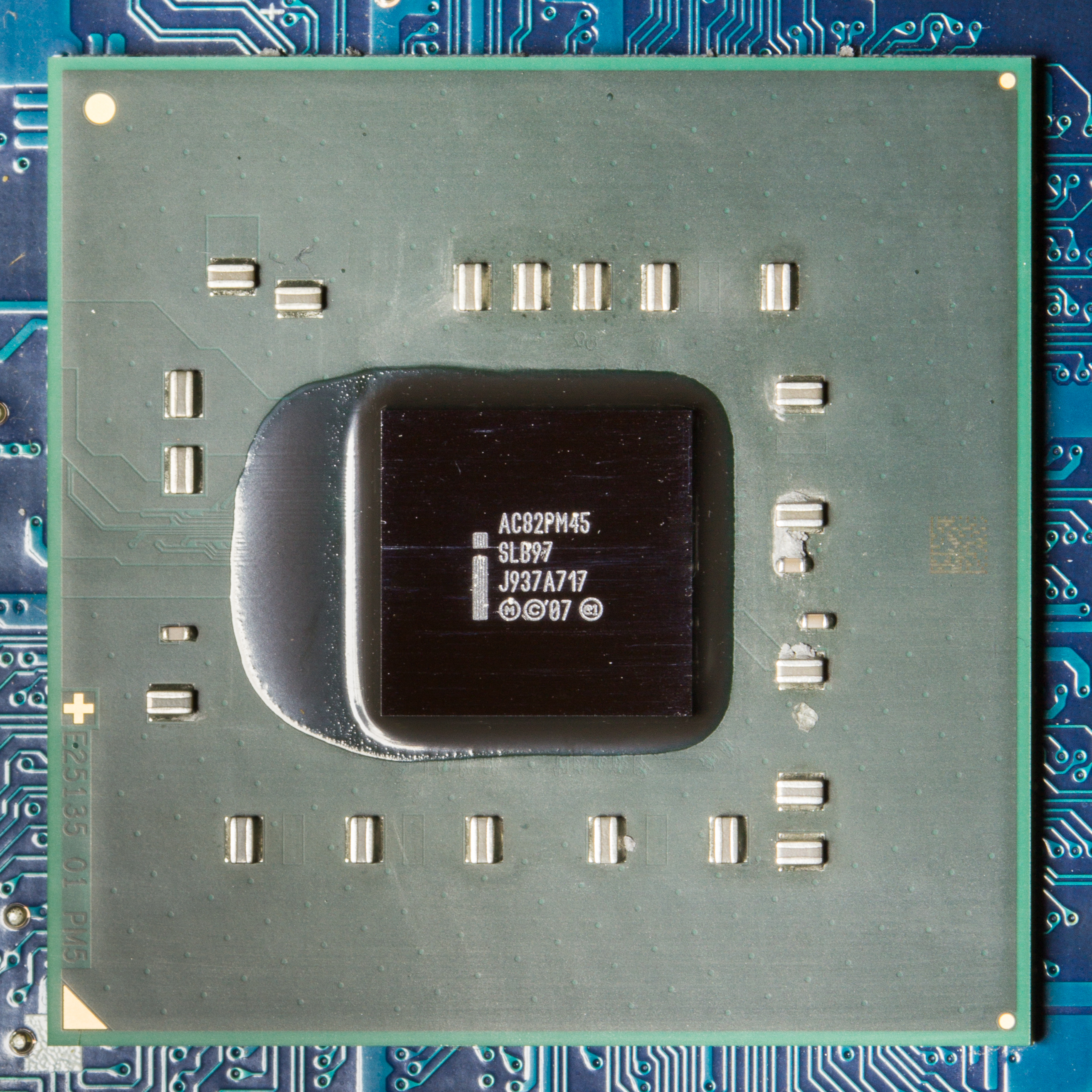 Intel 82PM45 Memory Controller Hub - MCH AC82PM45-SLB97. Chipset: PM45, code name: Cantiga